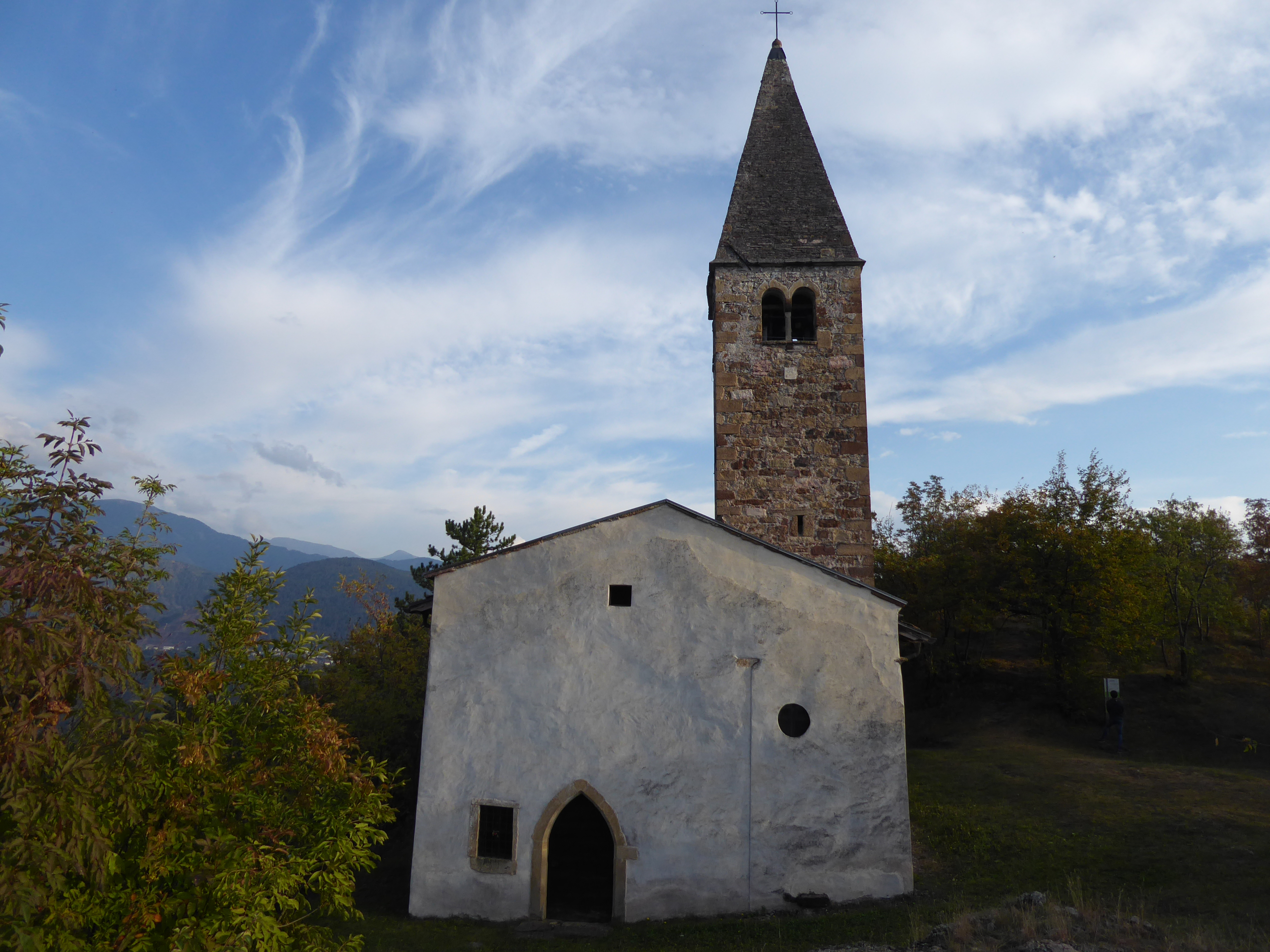 Saint Florian chuch in Valternigo (Giovo, Trentino, Italy)